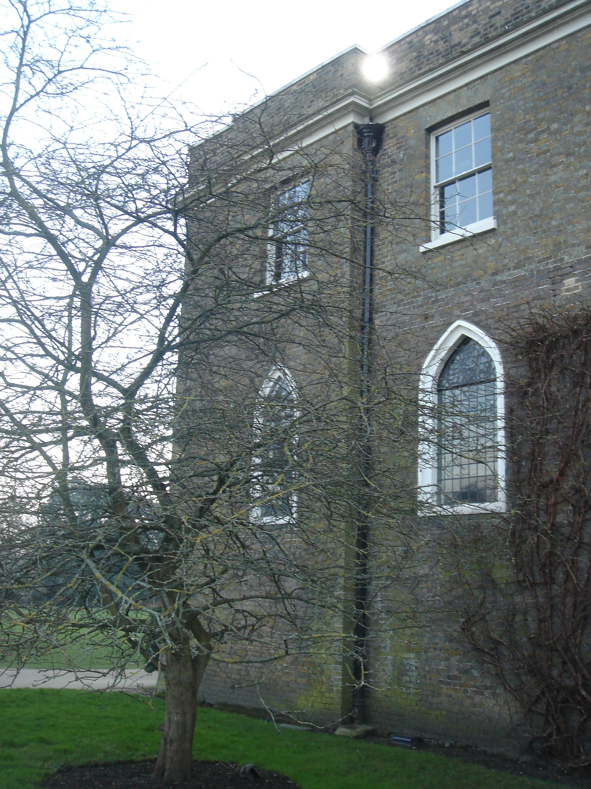 Fulham Palace, London